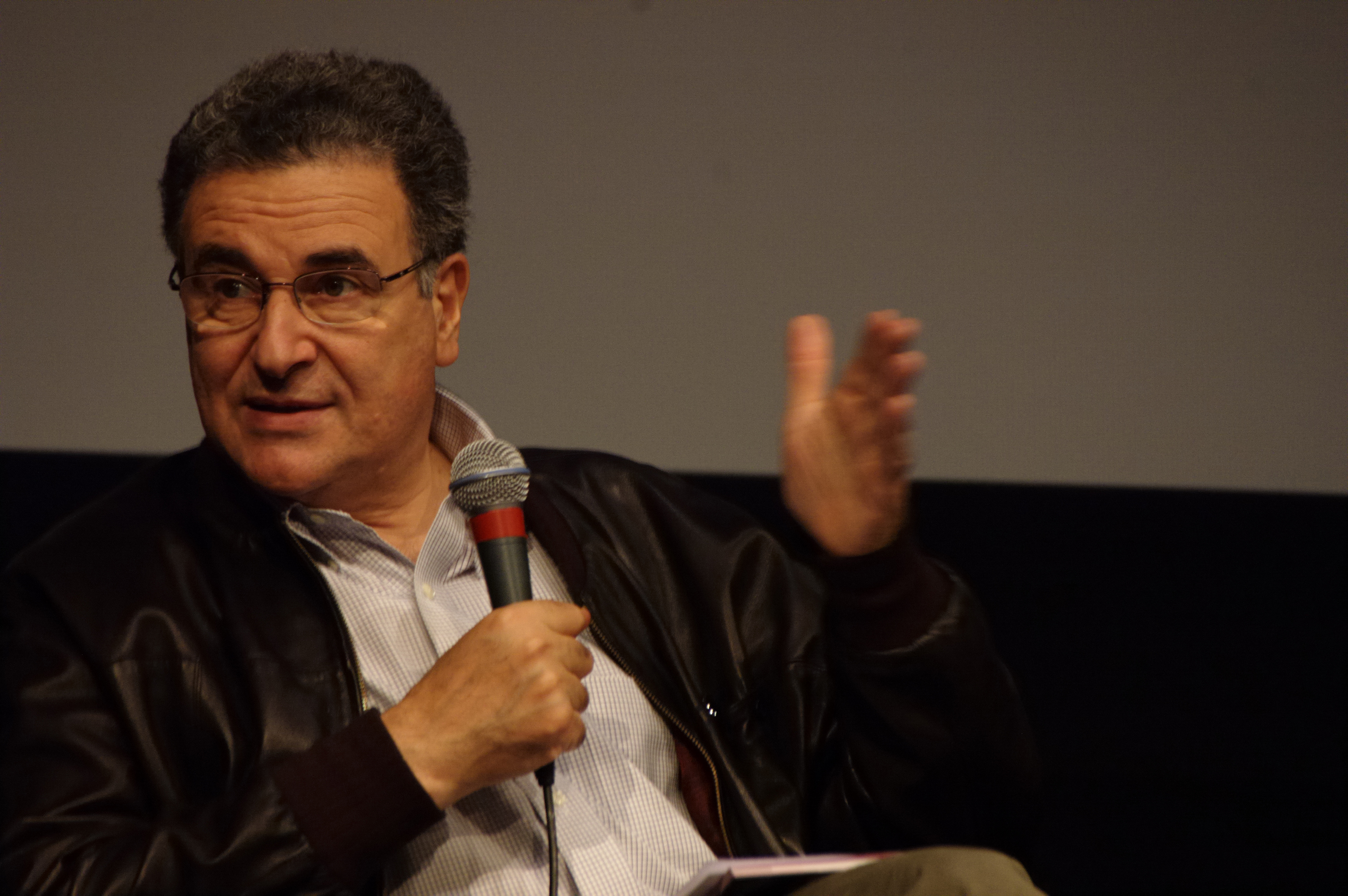 French film critic Serge Toubiana animating a debate at the Cinémathèque française on june 14th 2008 about the subject "Was May 68 filmed?".